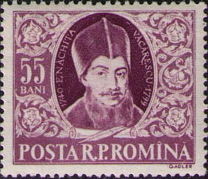 1955 Romanian Post, 55 bani, violet-brown, representing Ienăchiţă Văcărescu; Series:Romanian Writers